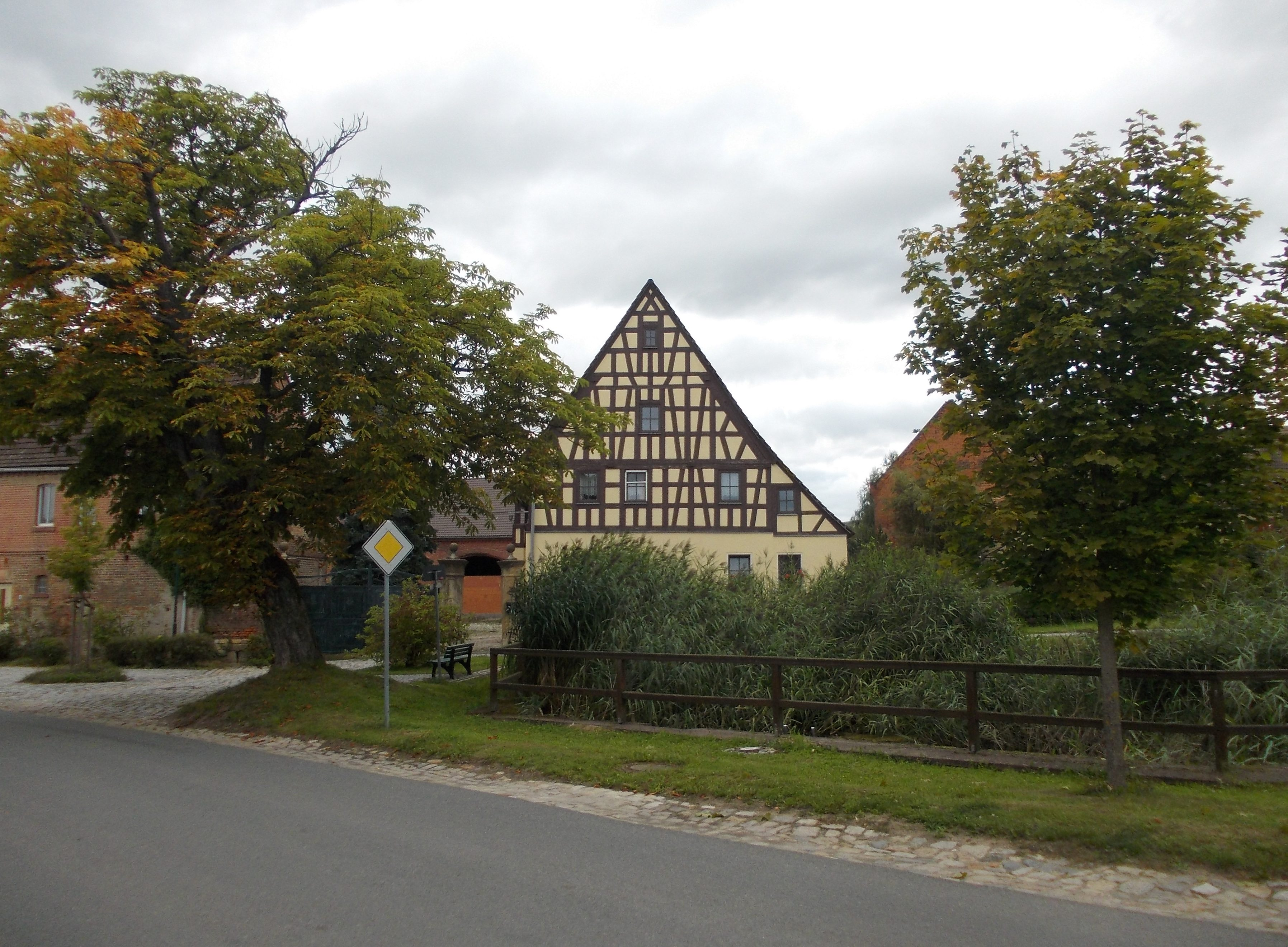 Pond and half-timbered house in Punkewitz (Mertendorf, district: Burgenlandkreis, Saxony-anhalt)